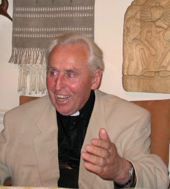 Monika Bonckute is the author of this picture.